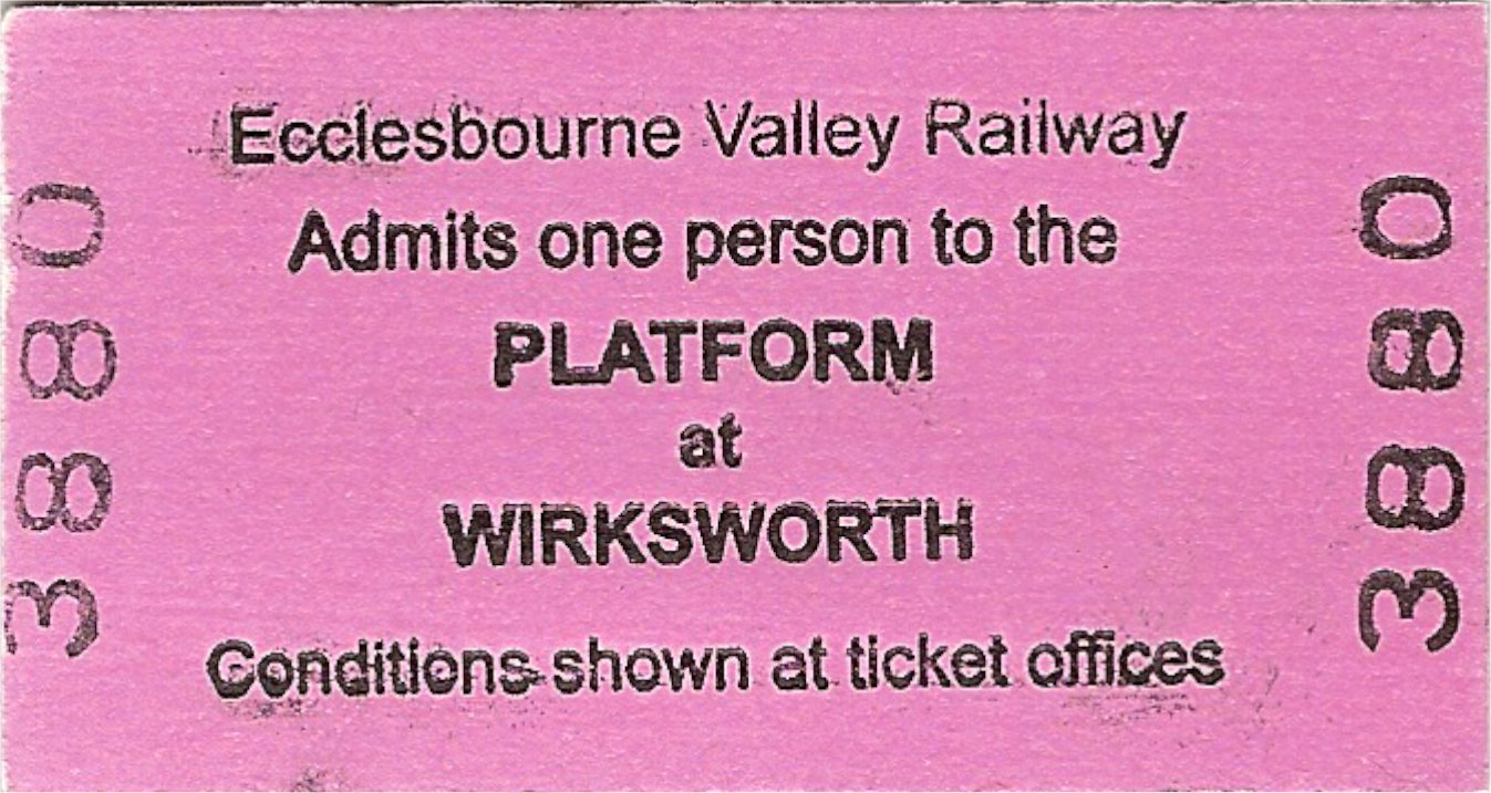 Peak Railway ticket.